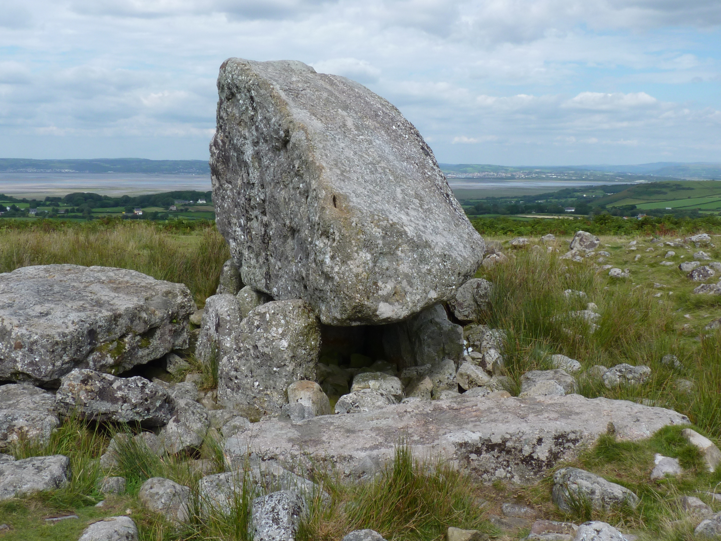 A huge capstone over a Neolithic Chambered Tomb, on Cefn Bryn hillside, in the centre of Gower